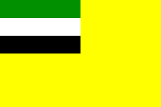 The Flag of Eastern Region (Ghana)